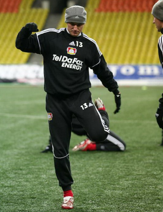 Dmitry Bulykin